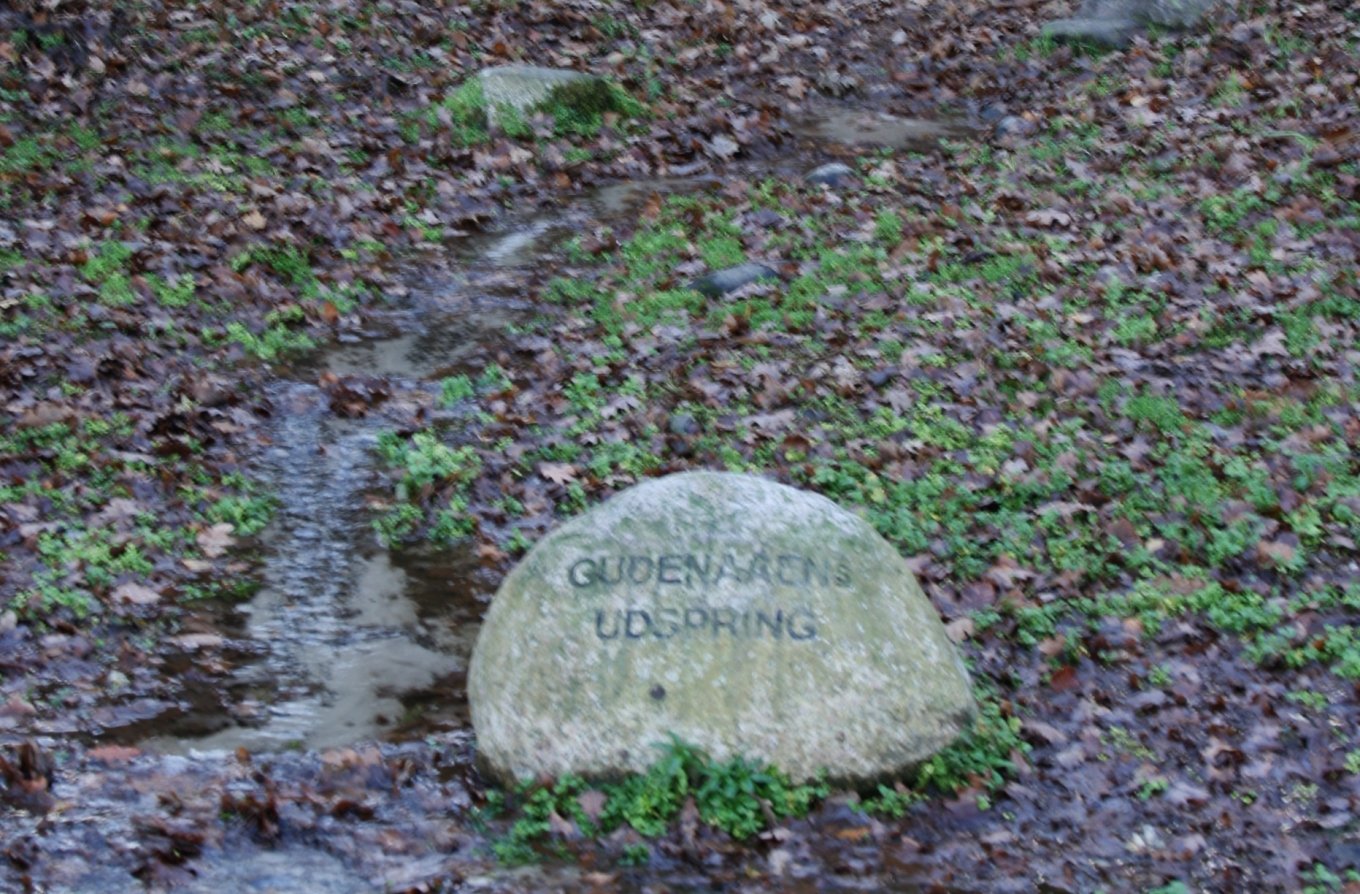 The source of Denmark's longest river, Gudenå.